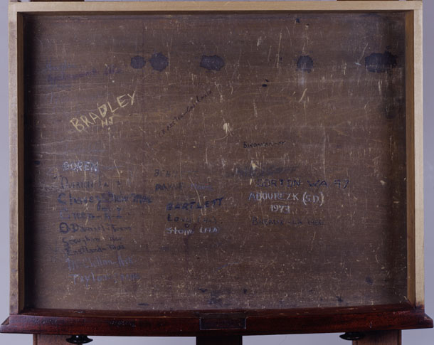 Desk XLIV drawer, United States Senate chamber, 2005. Beginning around 1900, senators began inscribing their names in the drawers of their desks.